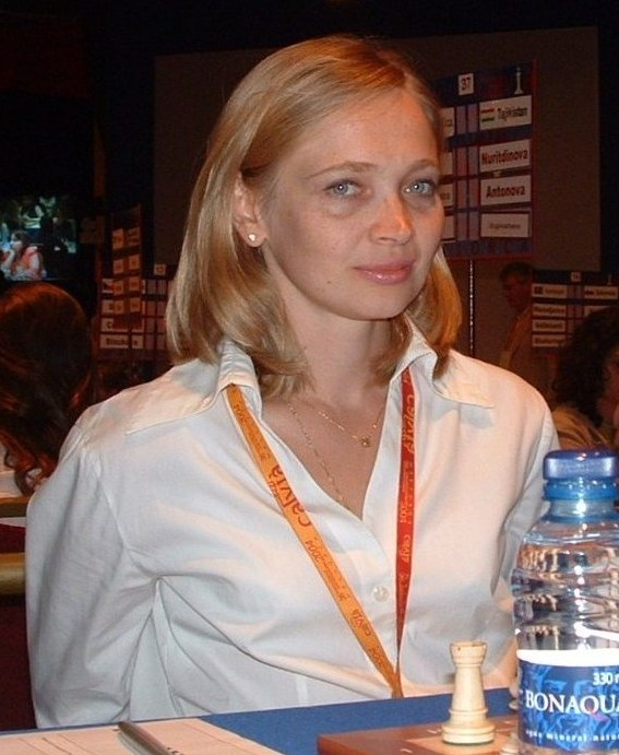 Photo of woman grandmaster Elena Sedina at Calvià olympiads 2004.